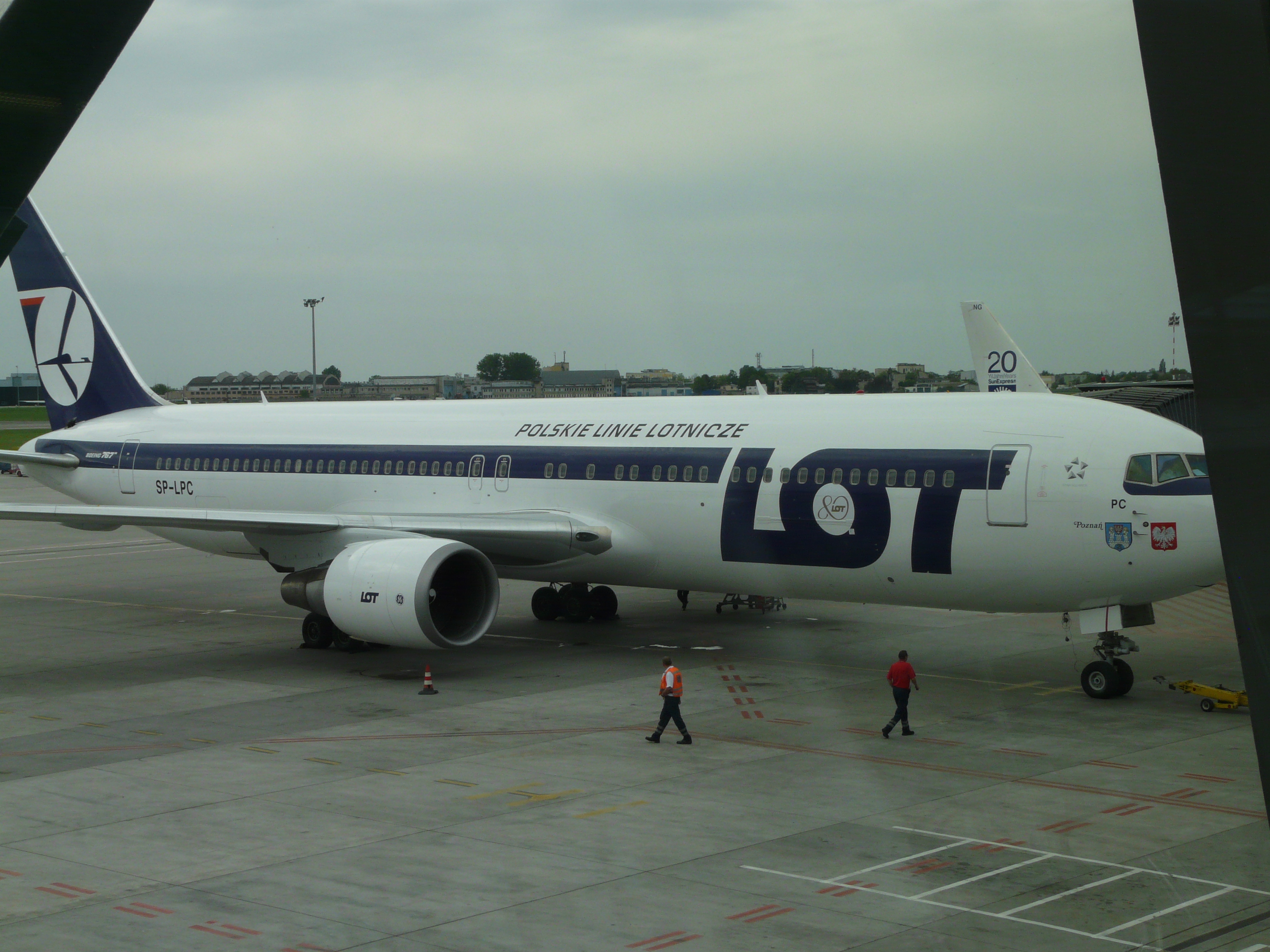 The Boeing 767-300 of LOT registered SP-LPC, at Warsaw Airport.